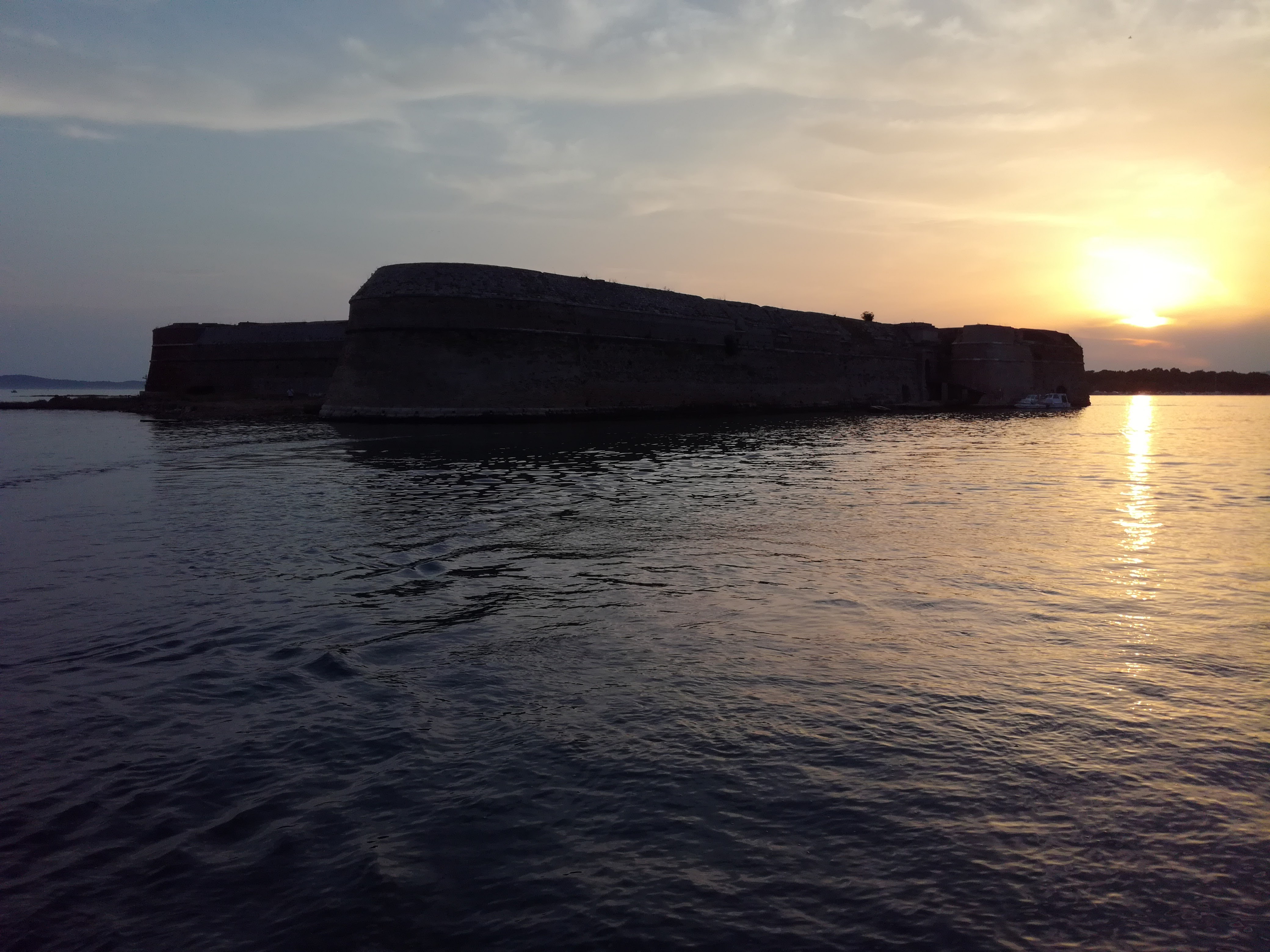 St. Nicholas Fortress in Sibenik